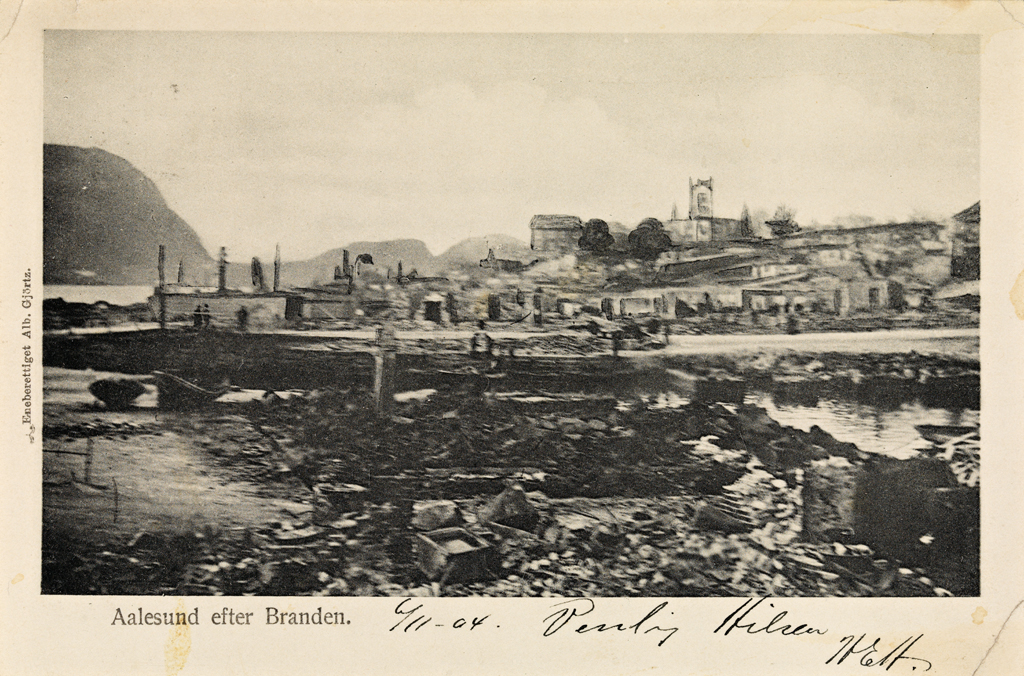 Tittel / Title: Aalesund efter Branden Motiv / Motif: Postkort. Den store bybrannen i Ålesund fant sted natt til 23. januar 1904. Dato / Date: 1904 Fotograf / Photographer: ukjent Utgiver / Publisher: Alb. Gjörtz Sted / Place: Møre og Romsdal, Ålesund Eier / Owner Institution: Nasjonalbiblioteket / National Library of Norway Lenke / Link: Bildesignatur / Image Number: blds_03800